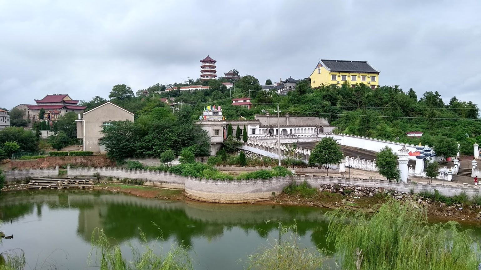 Mountain with Temple in Caishan Town, Huangmei County, Hubei